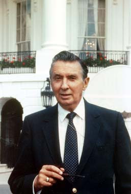 Photo of Hearst journalist and White House correspondent Robert Thompson standing on the White House lawn.